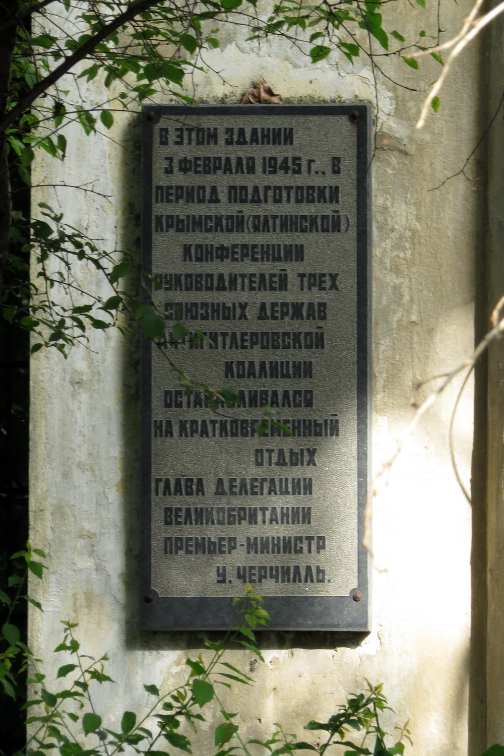 Simferopol, House where had rest Churchill in 1945